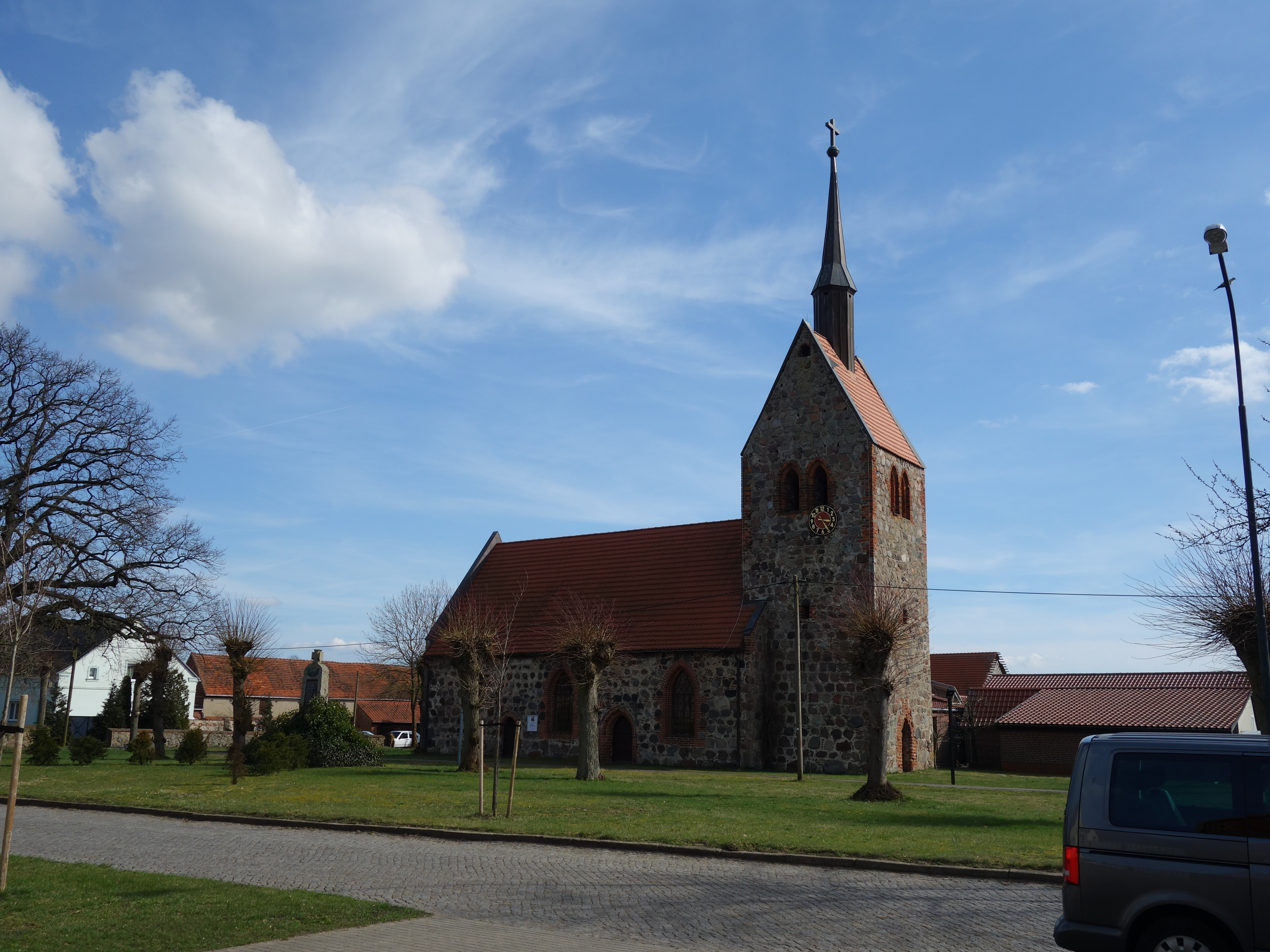 North-north-western view of church in Bendelin, Plattenburg municipality, Prignitz district, Brandenburg state, Germany